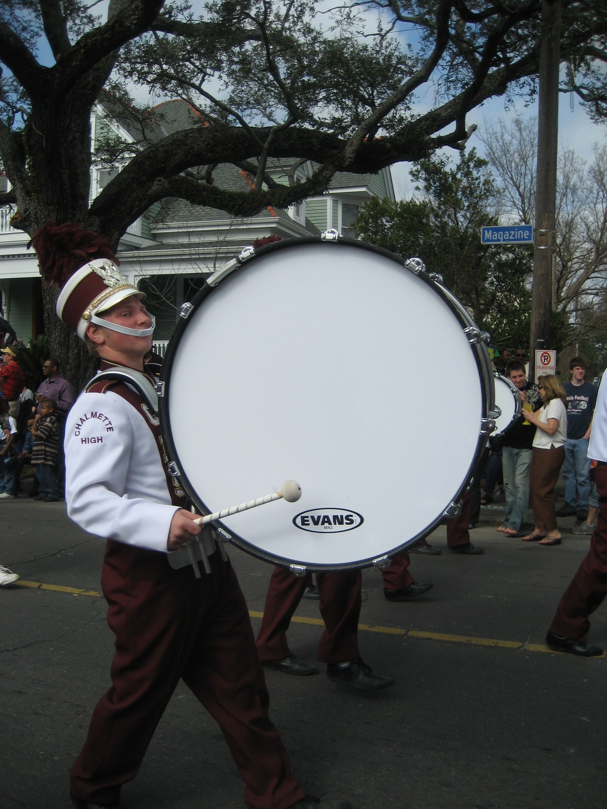 Bass drummer in marching band, Krewe of Thoath parade, Magazine Street, New Orleans Carnival.